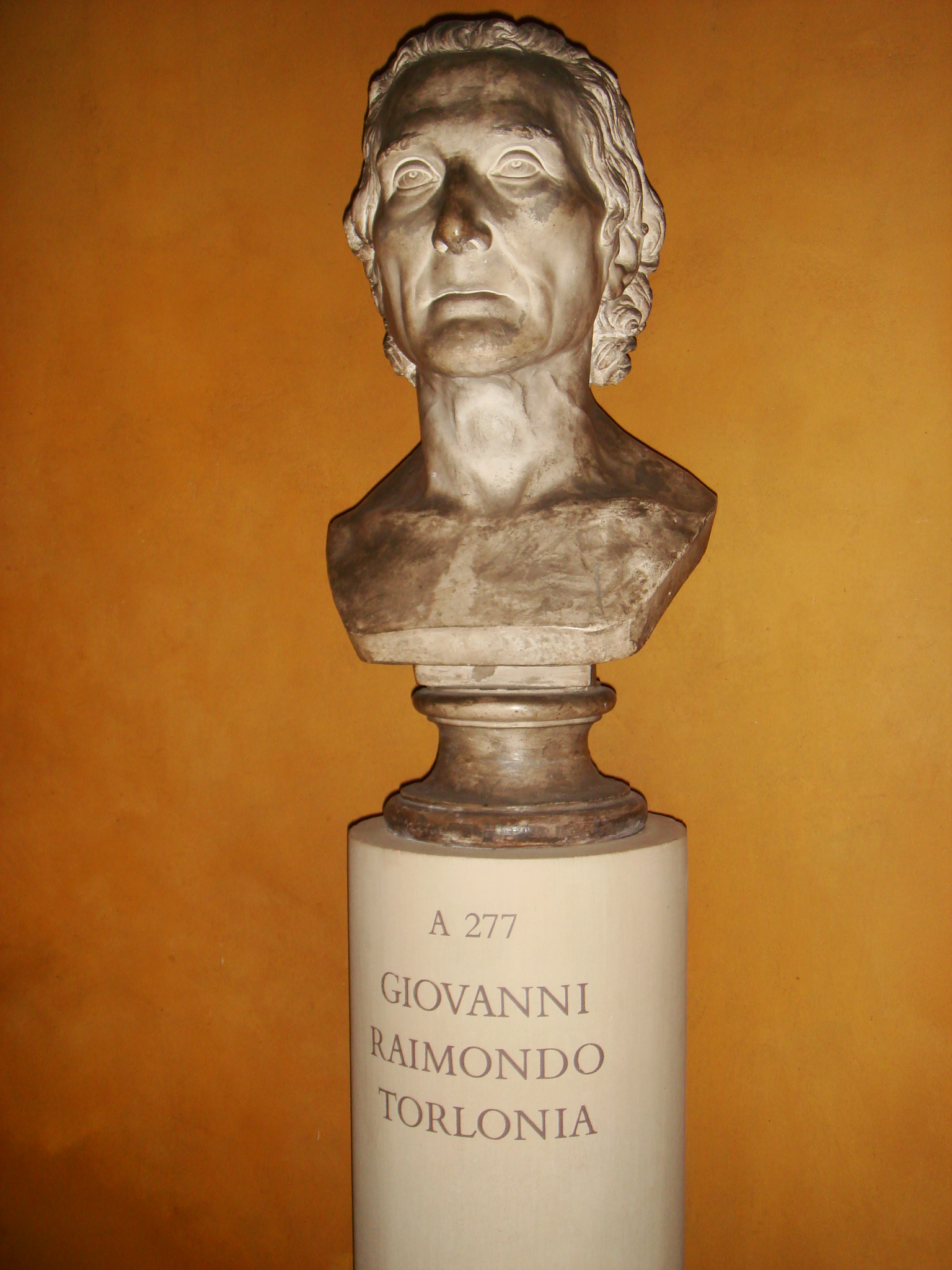 Bust of Giovanni Raimondo Torloniaof Bertel Thorvaldsen. Museo Thorvaldsen, Copenhagen. Picture by Stefano Bolognini.